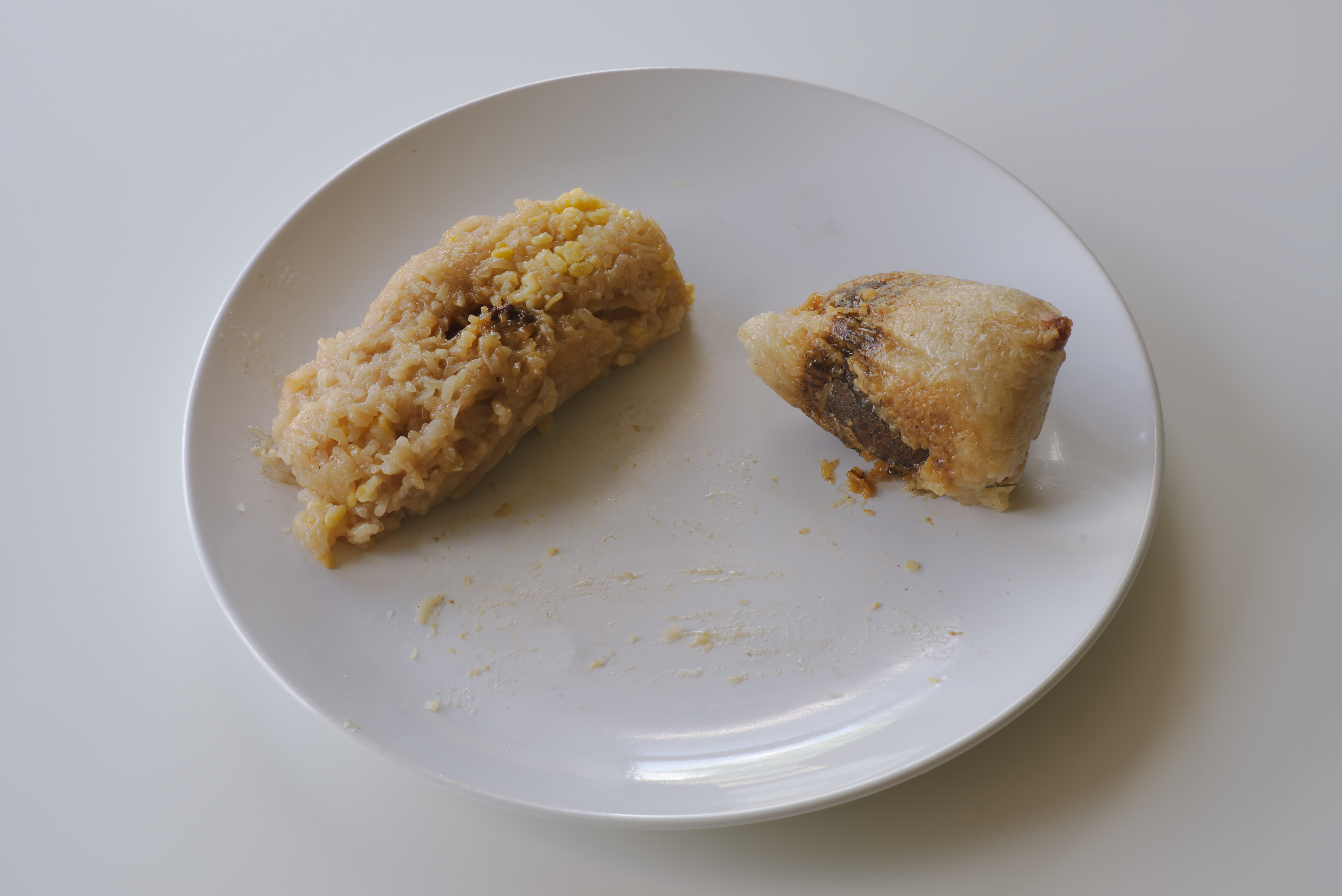 Zongzi is a traditional Chinese food, consisting of glutinous rice with various fillings wrapped in large flat leaves. Here, the contents of two zongzi are shown: on the left, mung bean and pork; on the right: pork.